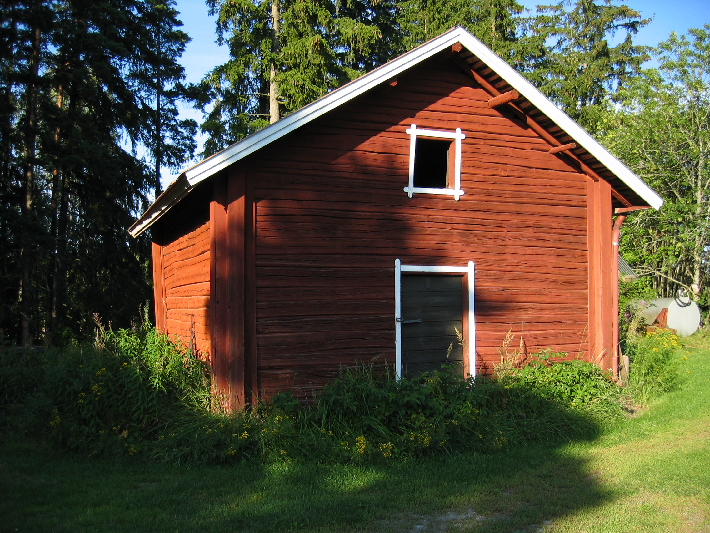 A 19th century granary in Lemu, Finland